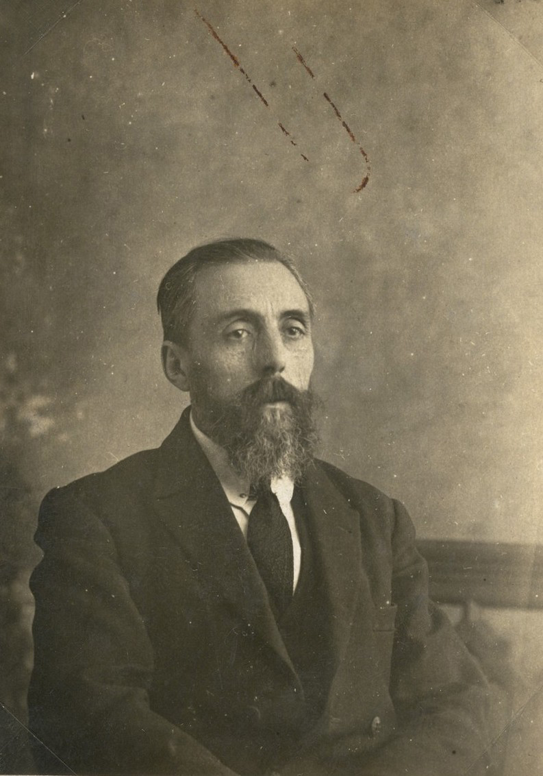 Portrait photograph of Josep Dalmau i Rafel